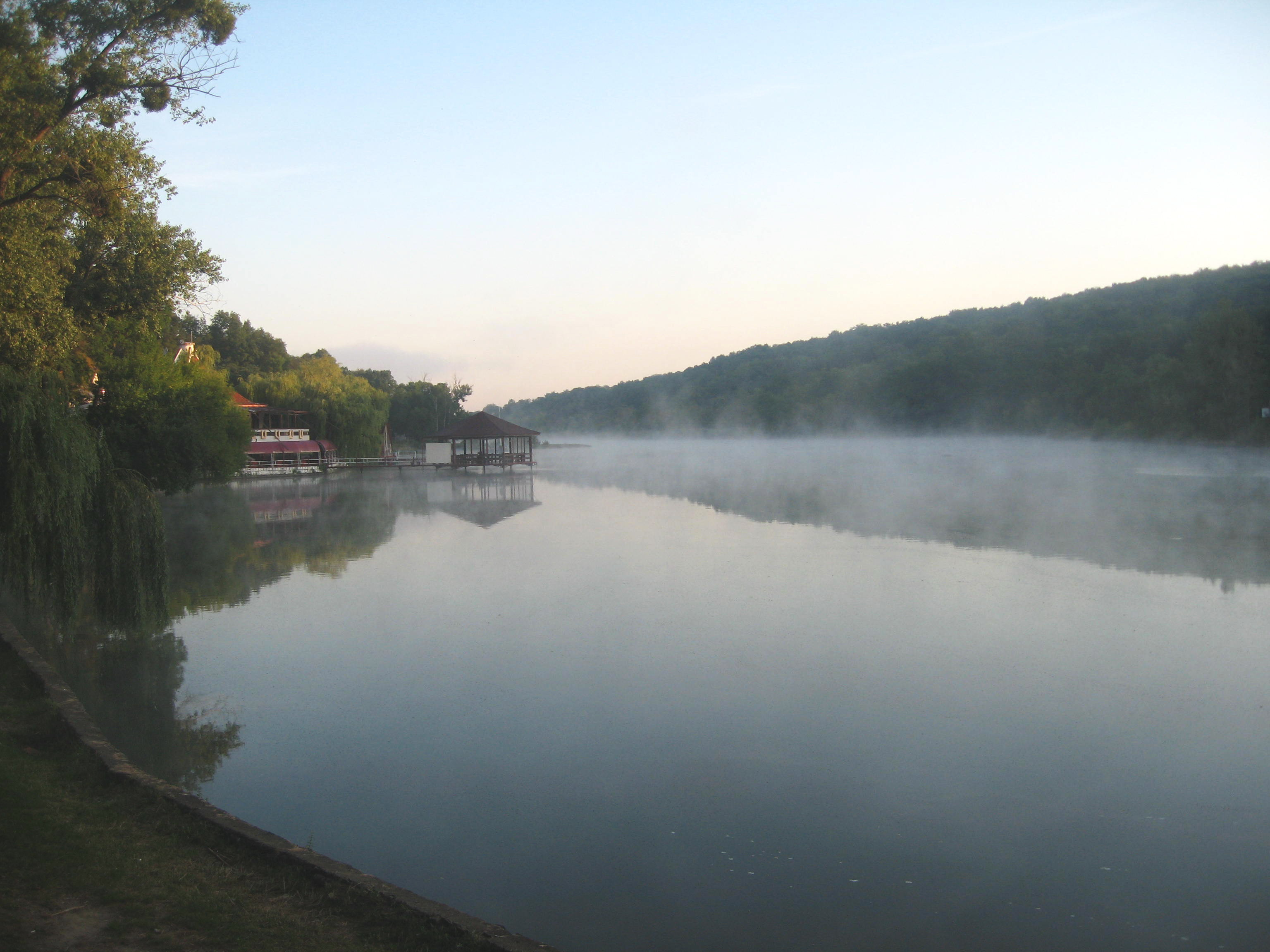 Barajul Ciric I